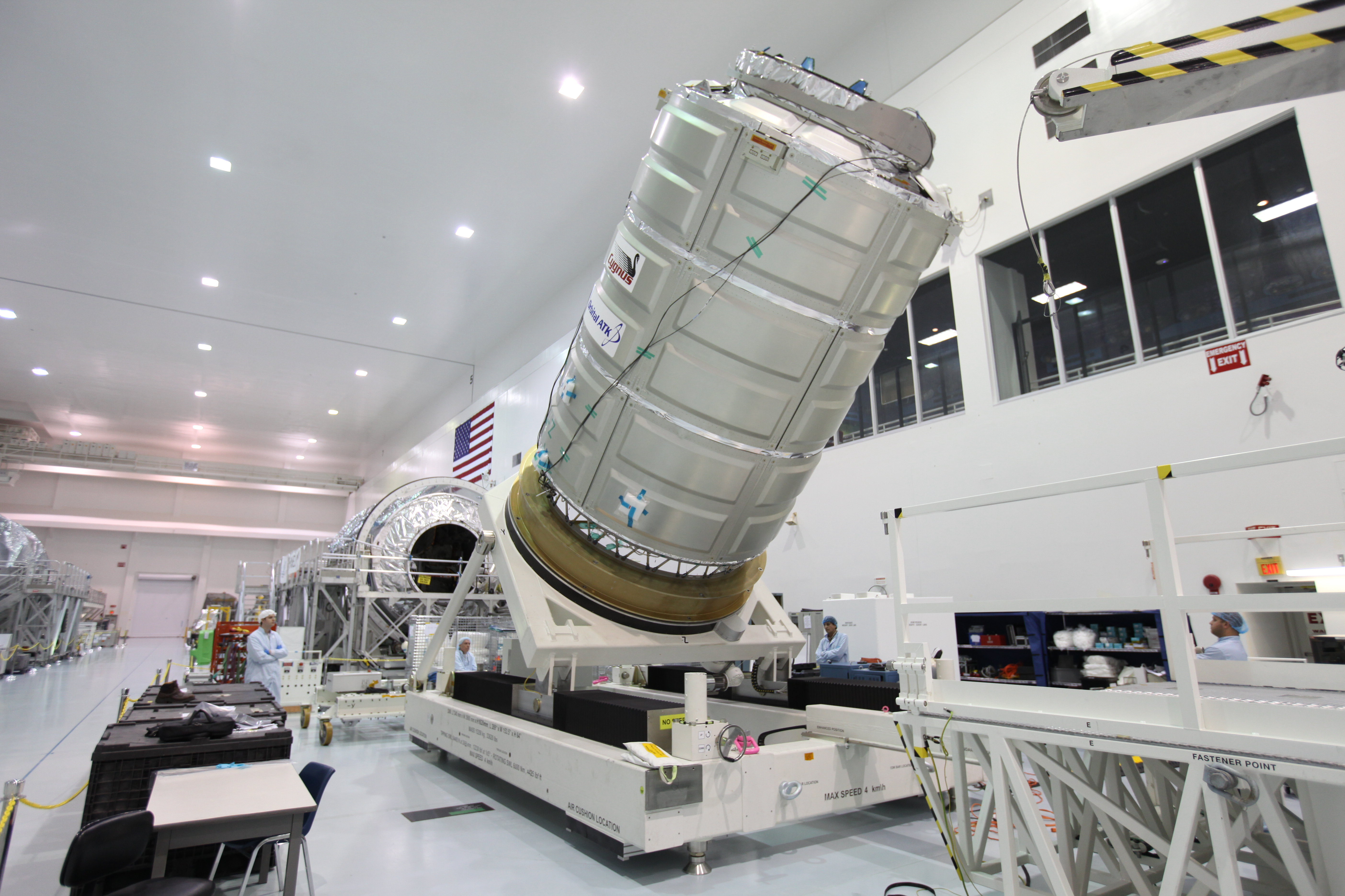 In the Space Station Processing Facility at NASA's Kennedy Space Center in Florida, the hatch was closed on the Cygnus spacecraft's pressurized cargo module (PCM) for the Orbital ATK CRS-7 mission to the International Space Station. The module is being rotated to vertical for mating to the service module. Scheduled to launch on March 19, 2017, the commercial resupply services mission will lift off atop a United Launch Alliance Atlas V rocket from Space launch Complex 41 at Cape Canaveral Air Force Station.